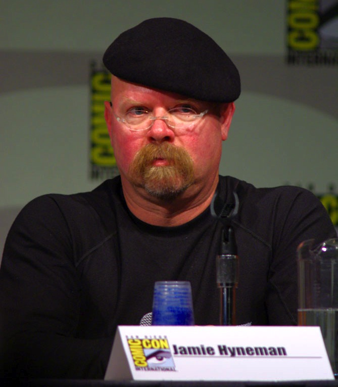 Jamie Hyneman at the San Diego Comic-Con 2010.